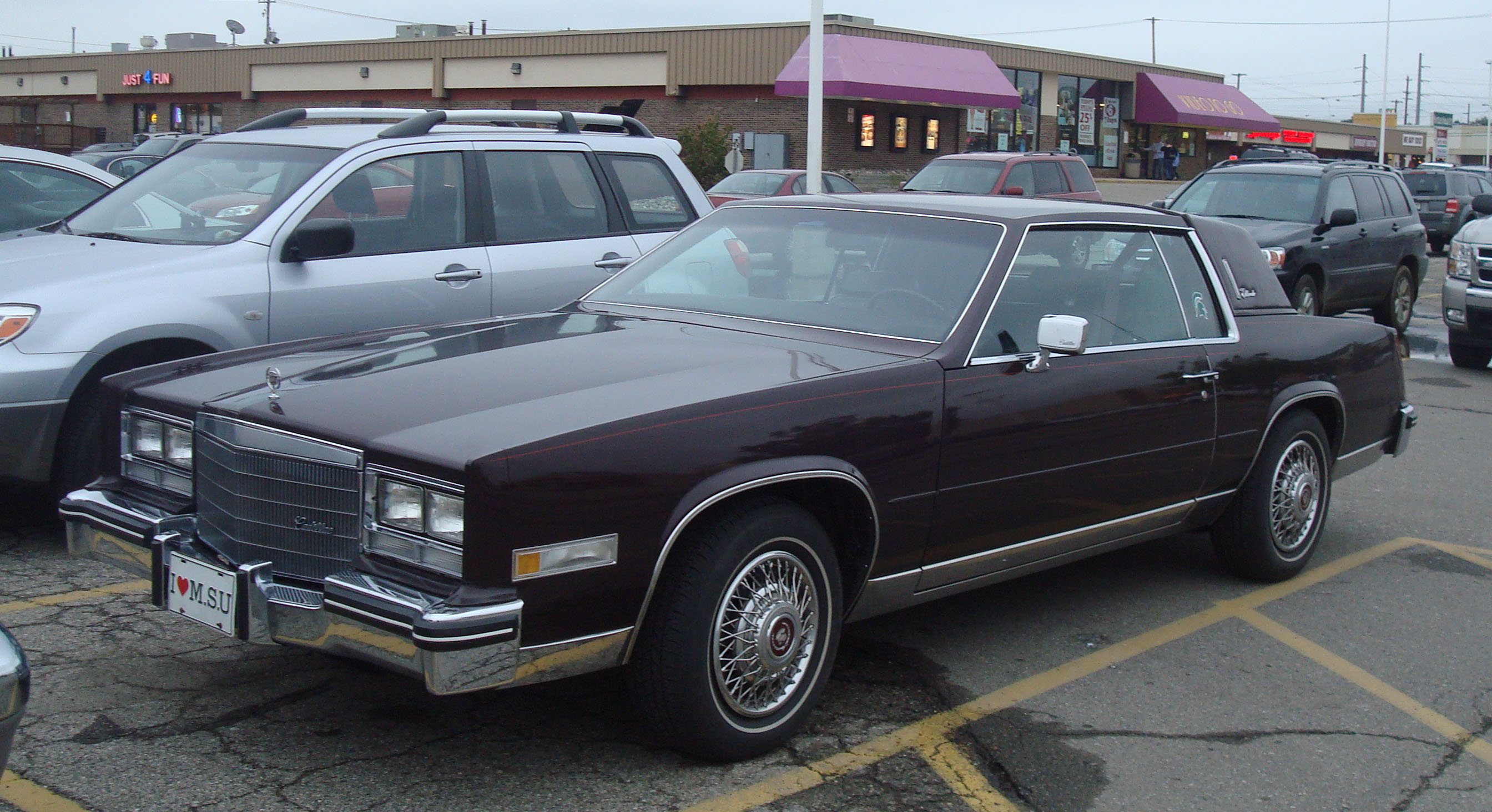 1979-85 Cadillac Eldorado